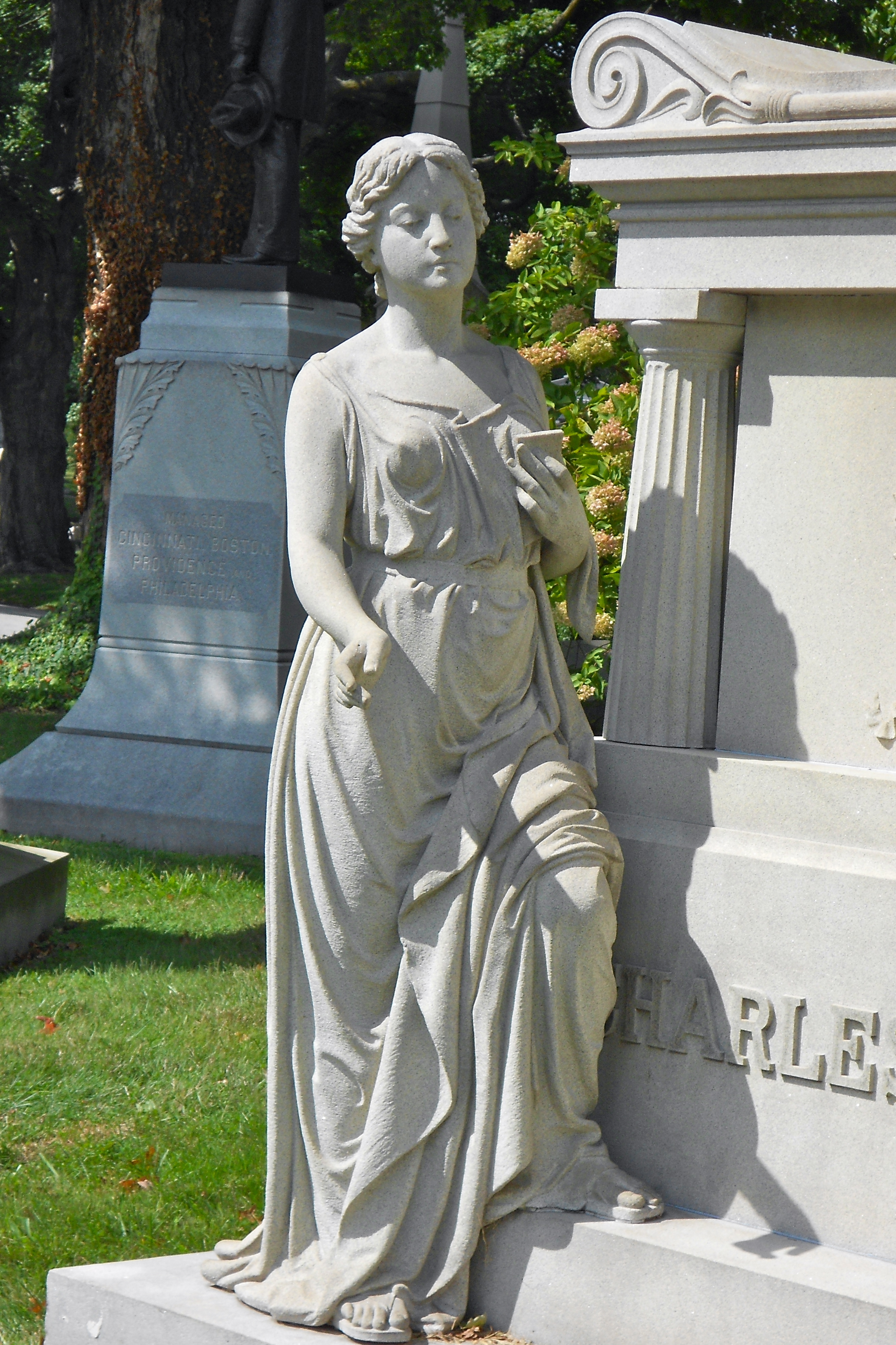 West Laurel Hill Cemetery Art object in West Laurel Hill Cemetery in Montgomery County, Pennsylvania on the NRHP